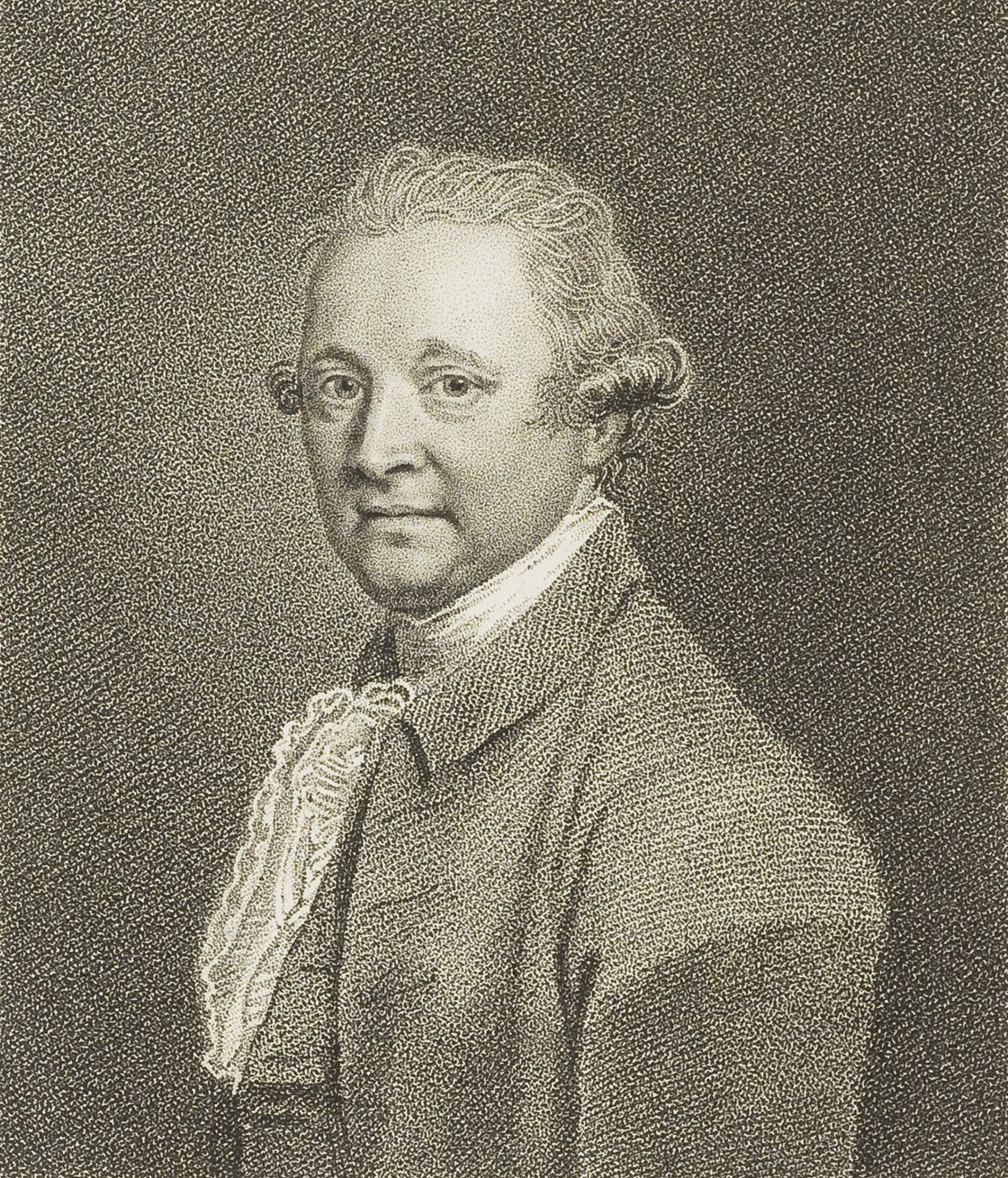 Portrait of John Monck Mason (1726–1809). Irish politician and literary scholar.